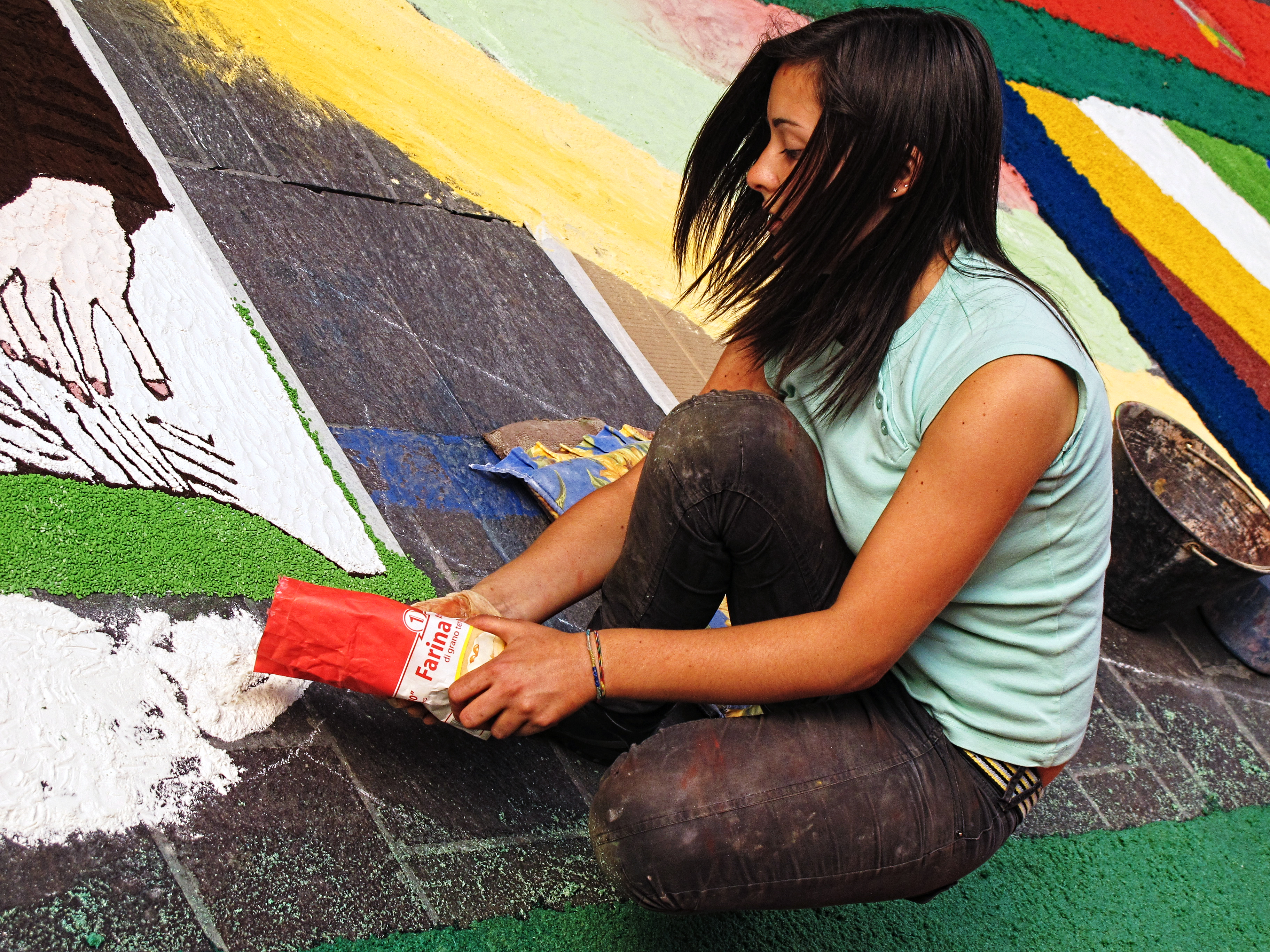 Infiorata di Sant'Antonio - Rieti (Lazio, Italy)